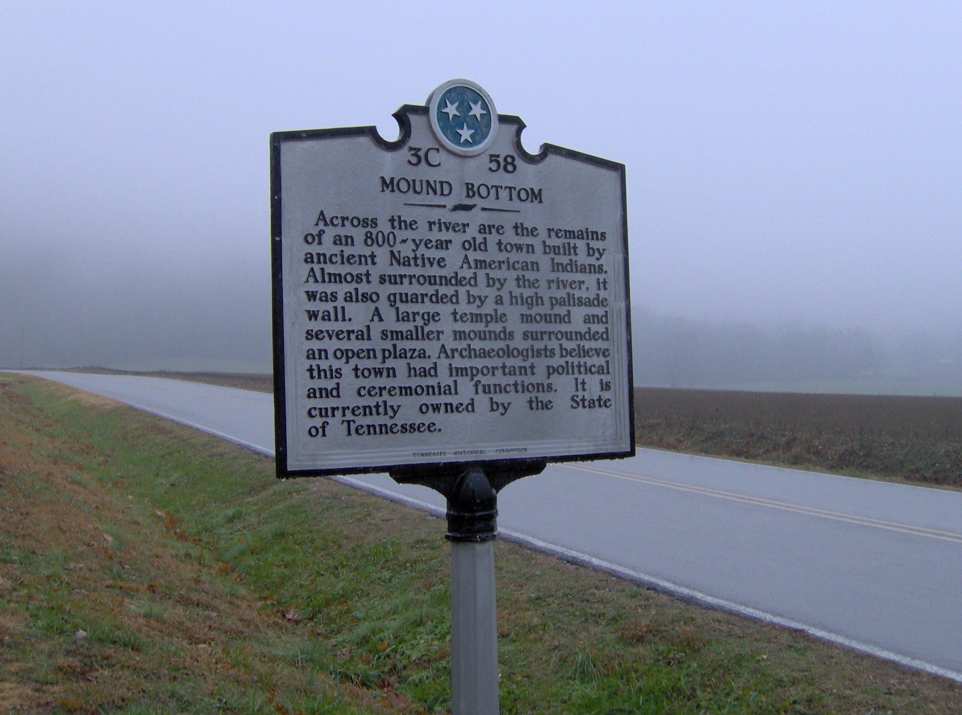 Tennessee Historical Commission marker along Cedar Hill Road in Cheatham County recalling the site of Mound Bottom, which was situated on the other side of the river to the north (left).